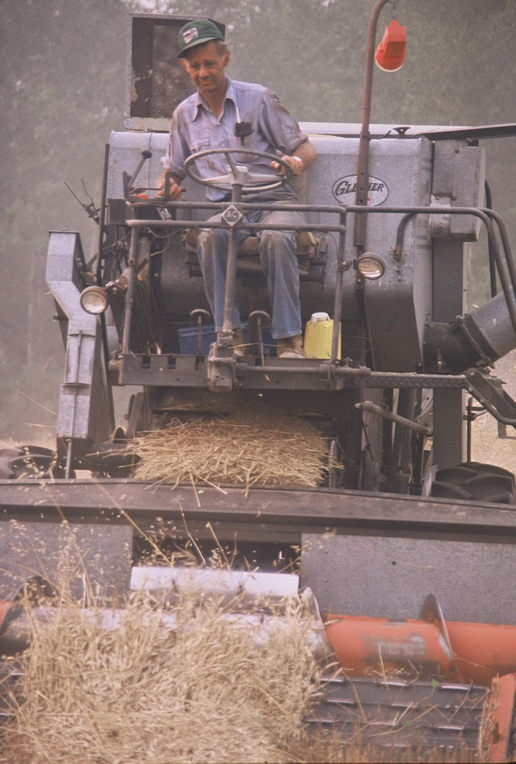 1965 Allis-Chalmers Gleaner E combine harvester in the Dysart area, Saskatchewan, Canada